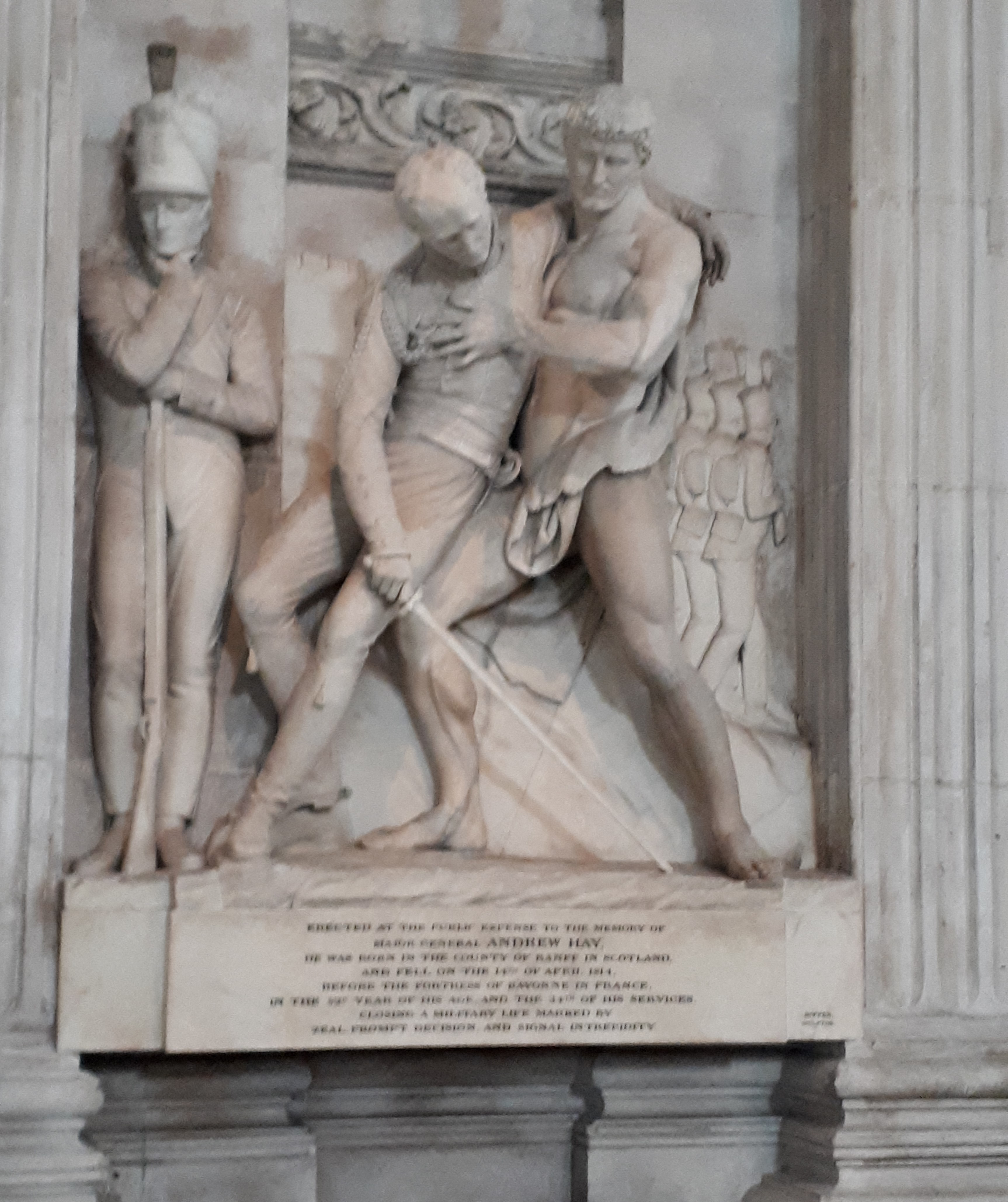 Memorial to Major General Andrew Hay, by Humphrey Hopper (1765-1844), at St. Paul's Cathedral, London